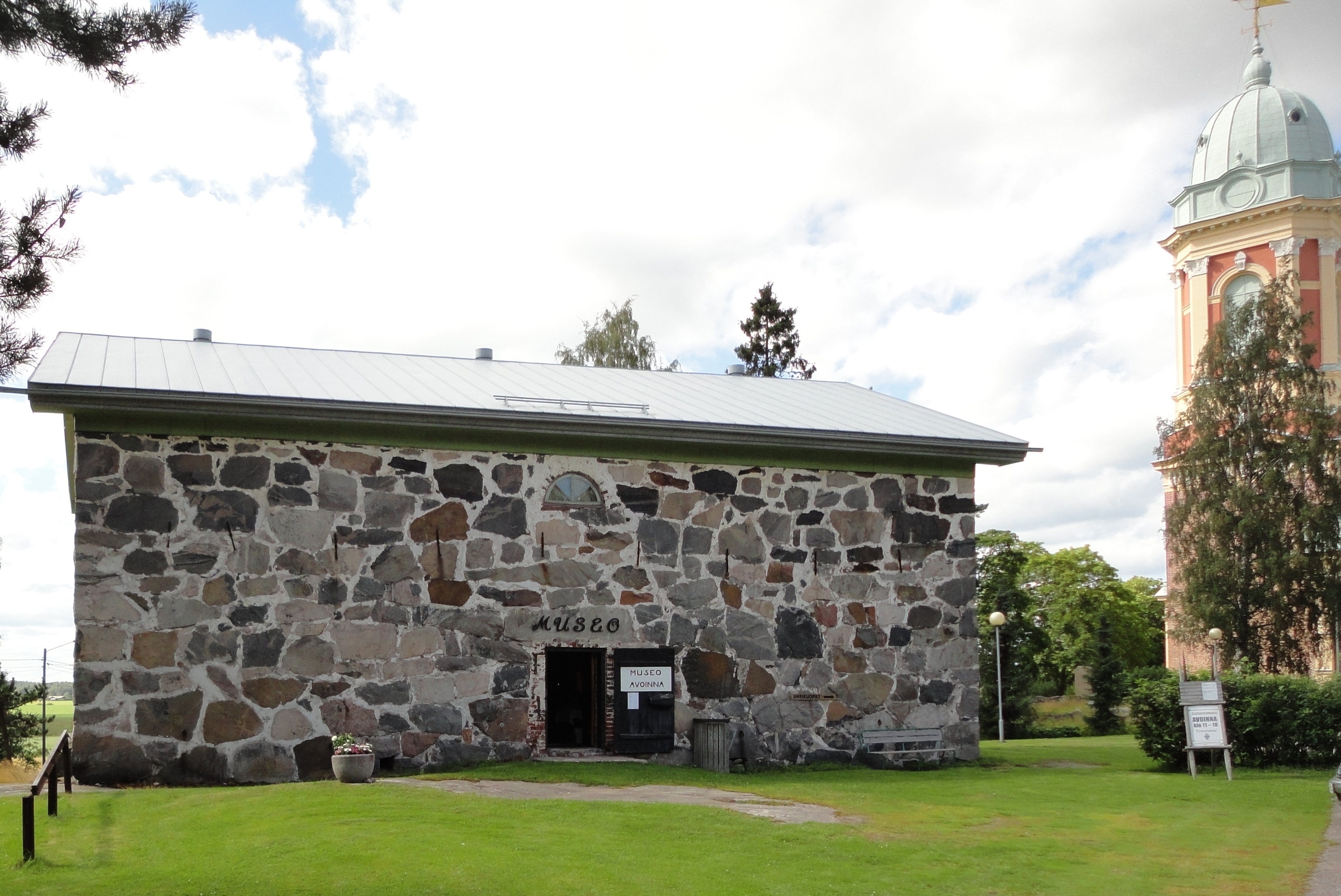 Loimaa village museum, Finland.